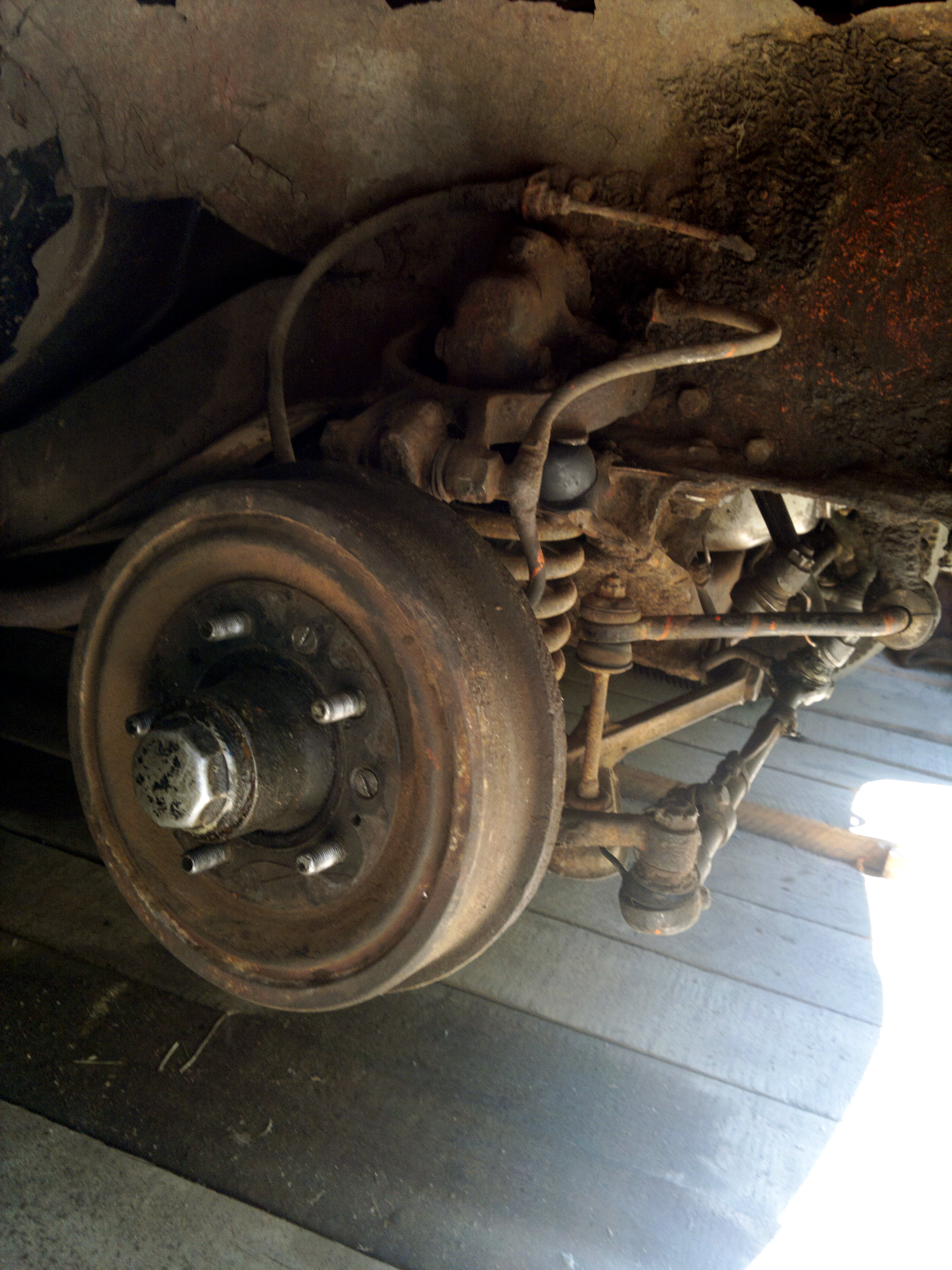 Parts of Volga M-21 front suspenstion automatic central lubrication system